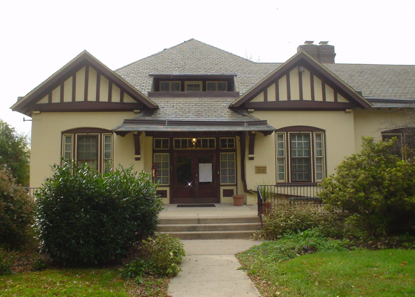 The Twentieth Century Club in Lansdowne, PA. On National Register of Historic Places (NRHP). I took this photo myself and give it to the public domain.